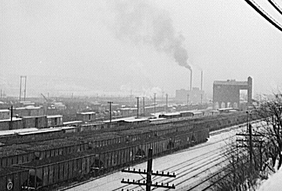 View of Conway Yard, Conway, Pennsylvania, USA. Cropped photo.